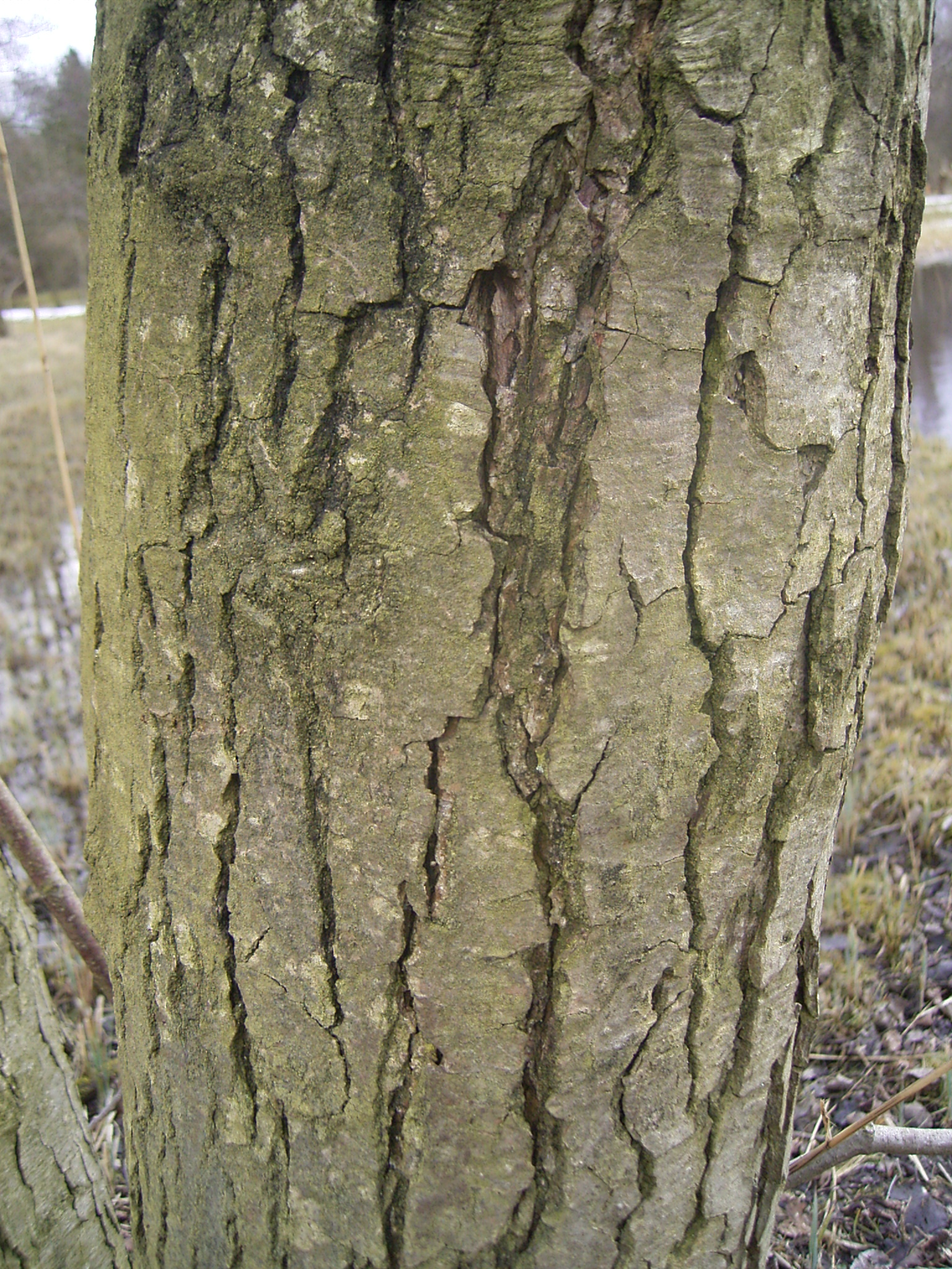 Deze foto toont de bast van de Alnus glutinosa. Ik nam de foto op 2 maart 2006 in het heempark in Delft. This photo shows the bark of Alnus glutinosa.